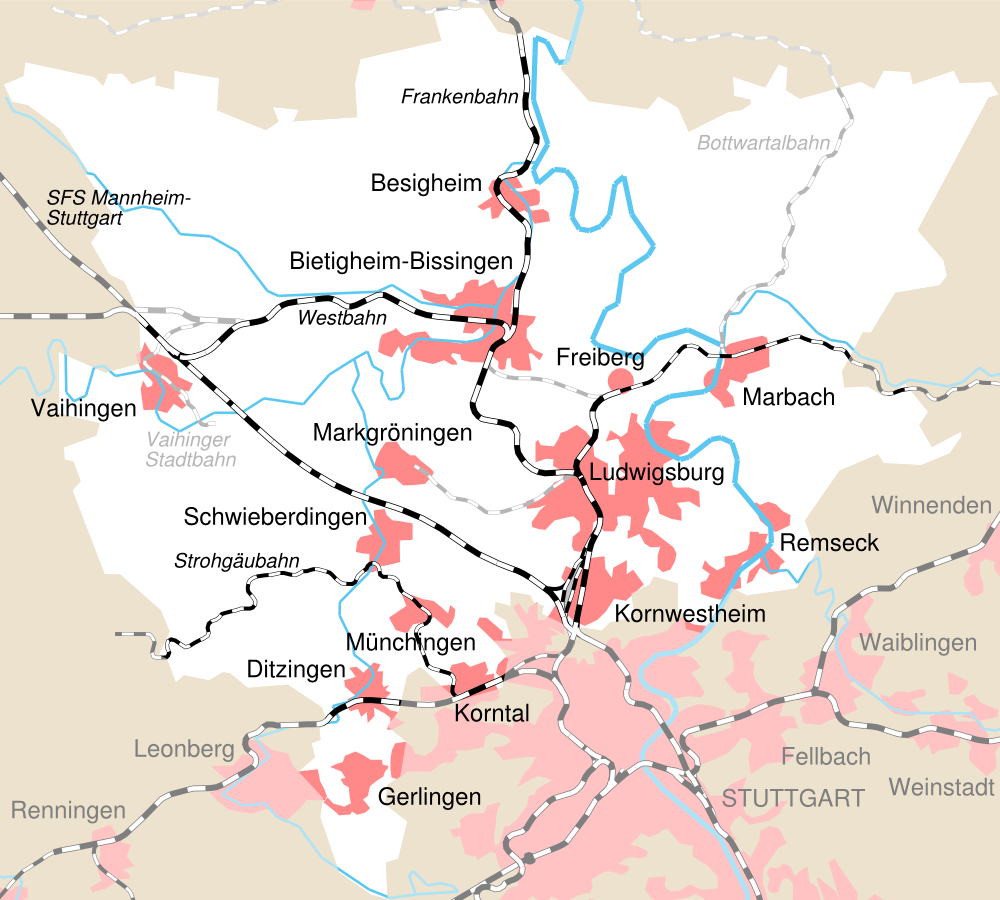 railway map of German district of Ludwigsburg. please see User:Kjunix/BahnNWB for comments.